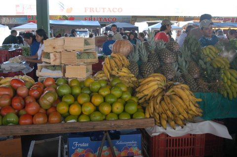 fruits market